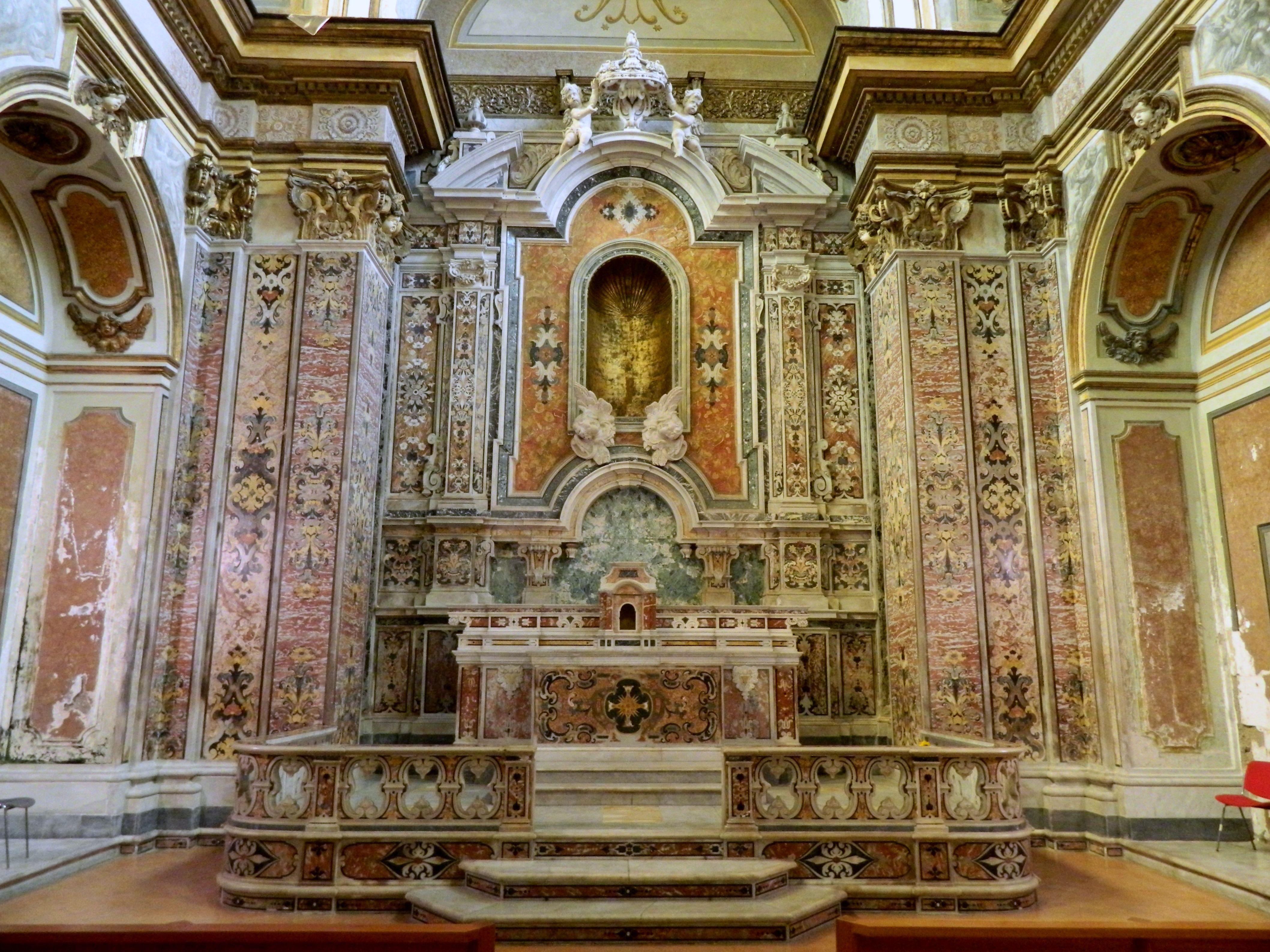 Chiesa della Croce di Lucca - Altare maggiore in marmo policromo